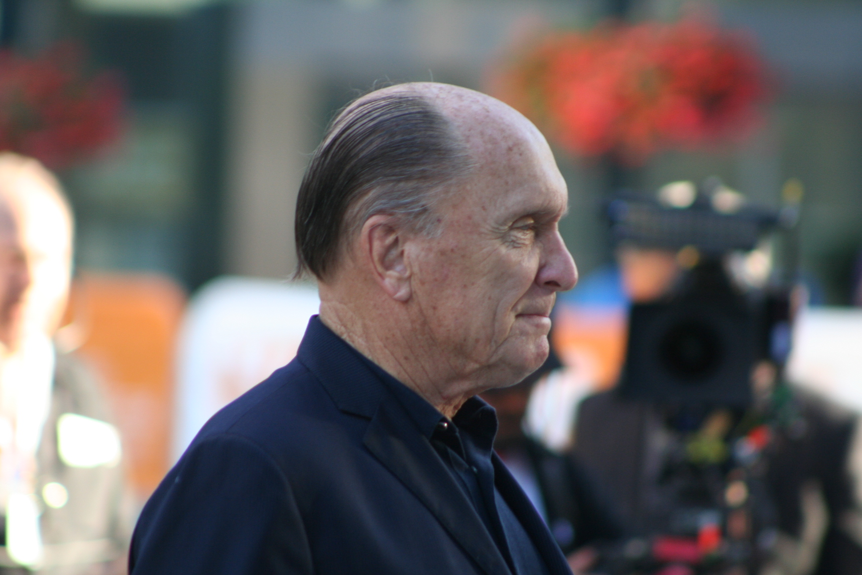 Stars turn out for the movie Get Low at TIFF 2009